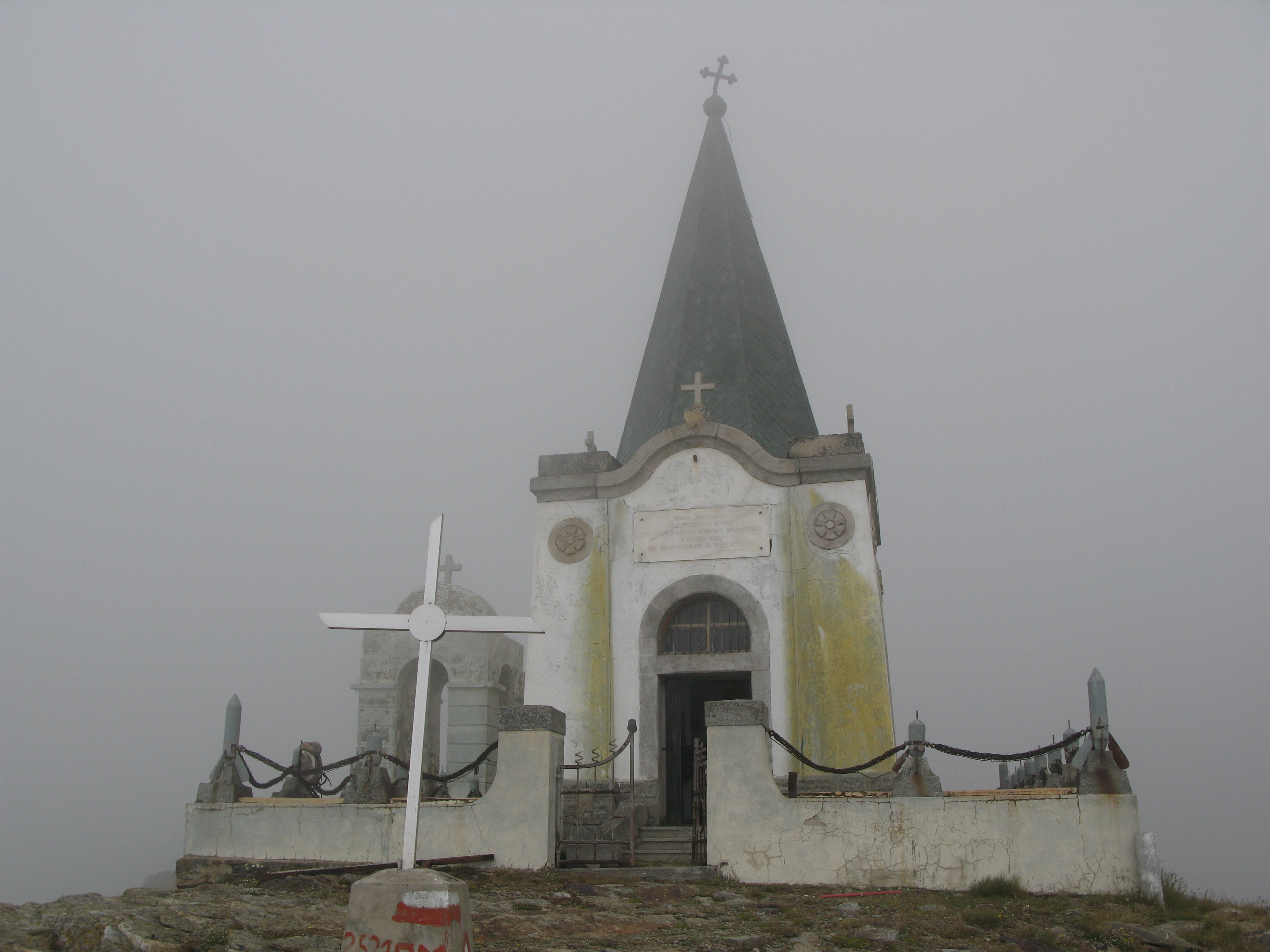 Serbian chapel to fallen soldiers on Kajmakčalan peak - 2521 m, place of fierce figthing in autumn of 1916. Peak was most important point in Macedonian front in 1st WW where in 1918 Serbian-French troops made biggest breakthrough which forced Bulgaria to capitulate. After entire Balkan front collapsed, Austro-Hungaria and Turkey (which was cut off from German railway supplies) capitulated too. Relicts of fierce figthing can be seen even today, bones, bullets, grenades, bunkers and trenches. Some 40 meters below the chapel is a morgue with skulls and bones found on the mountain.